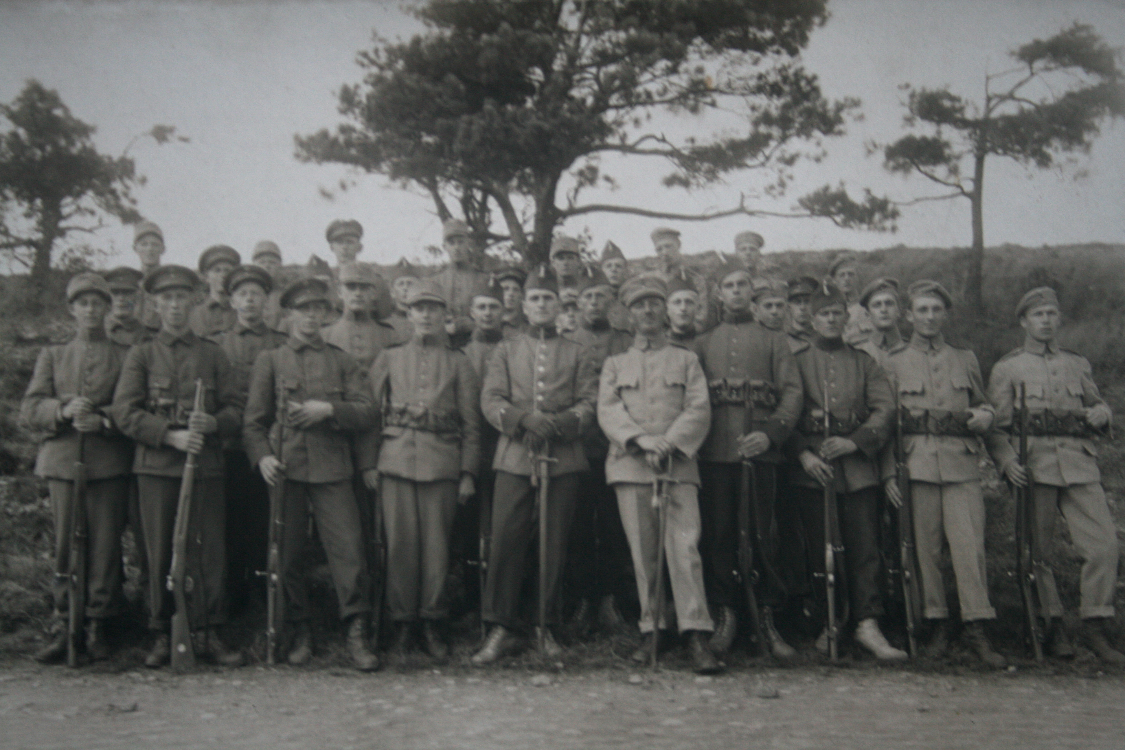 Swedish Army testing various styles of uniforms, approximately 1919. Charles Teodor Hansson is in front row, second from the right side.